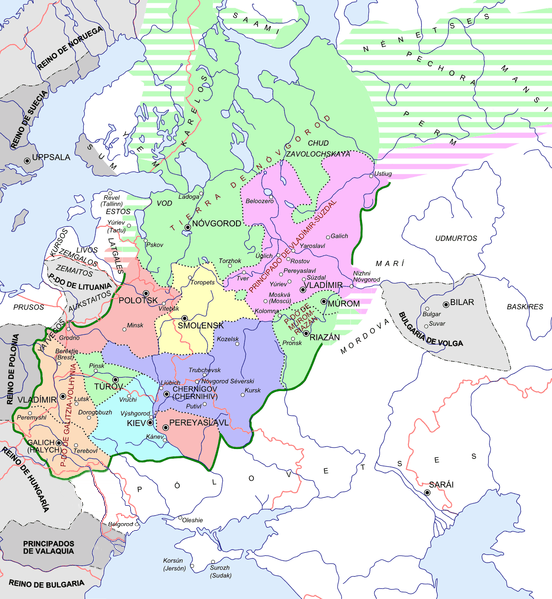 Kievan Rus, 1237